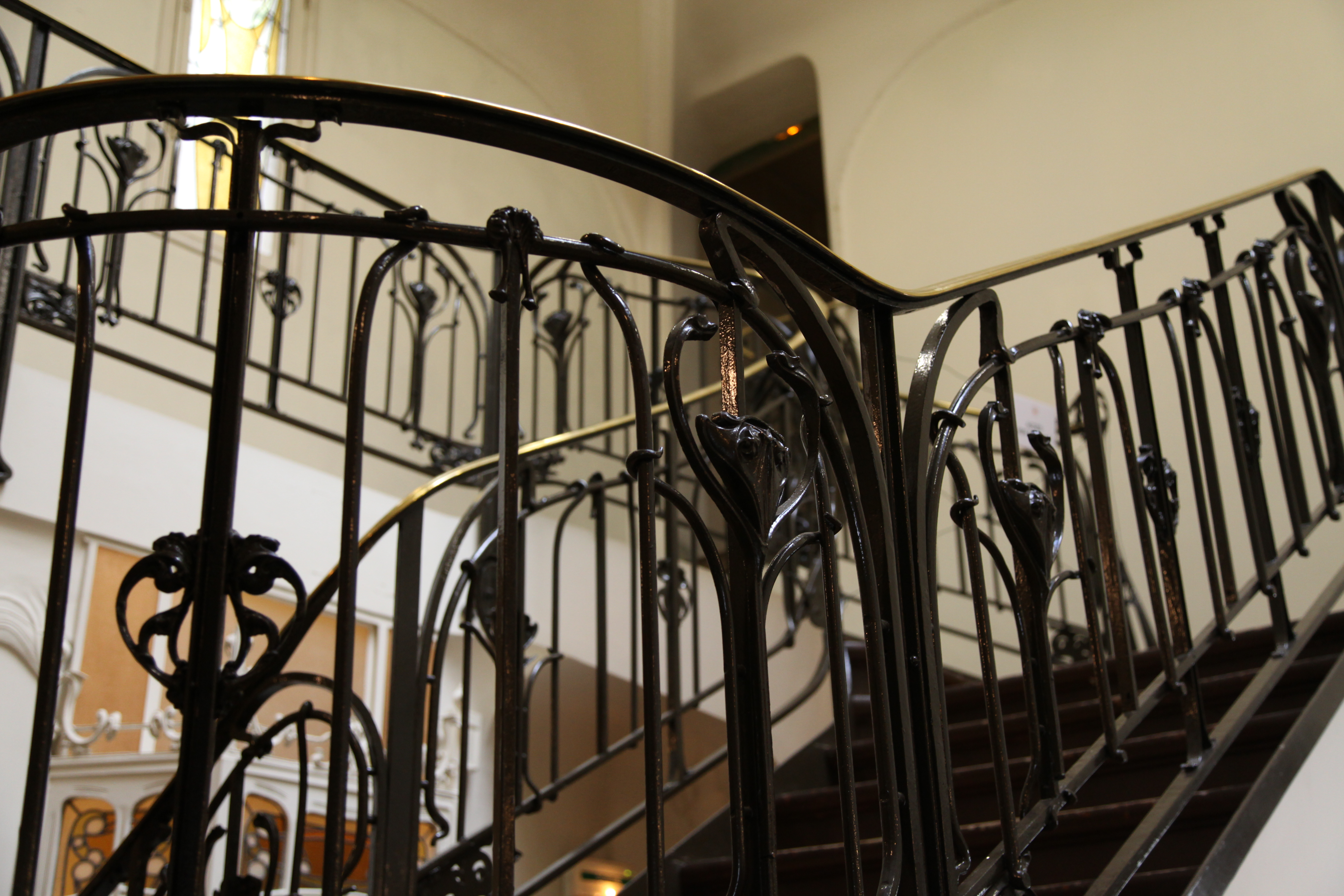 Hotel Mezzara (Paris XVI) staircase in vestibule